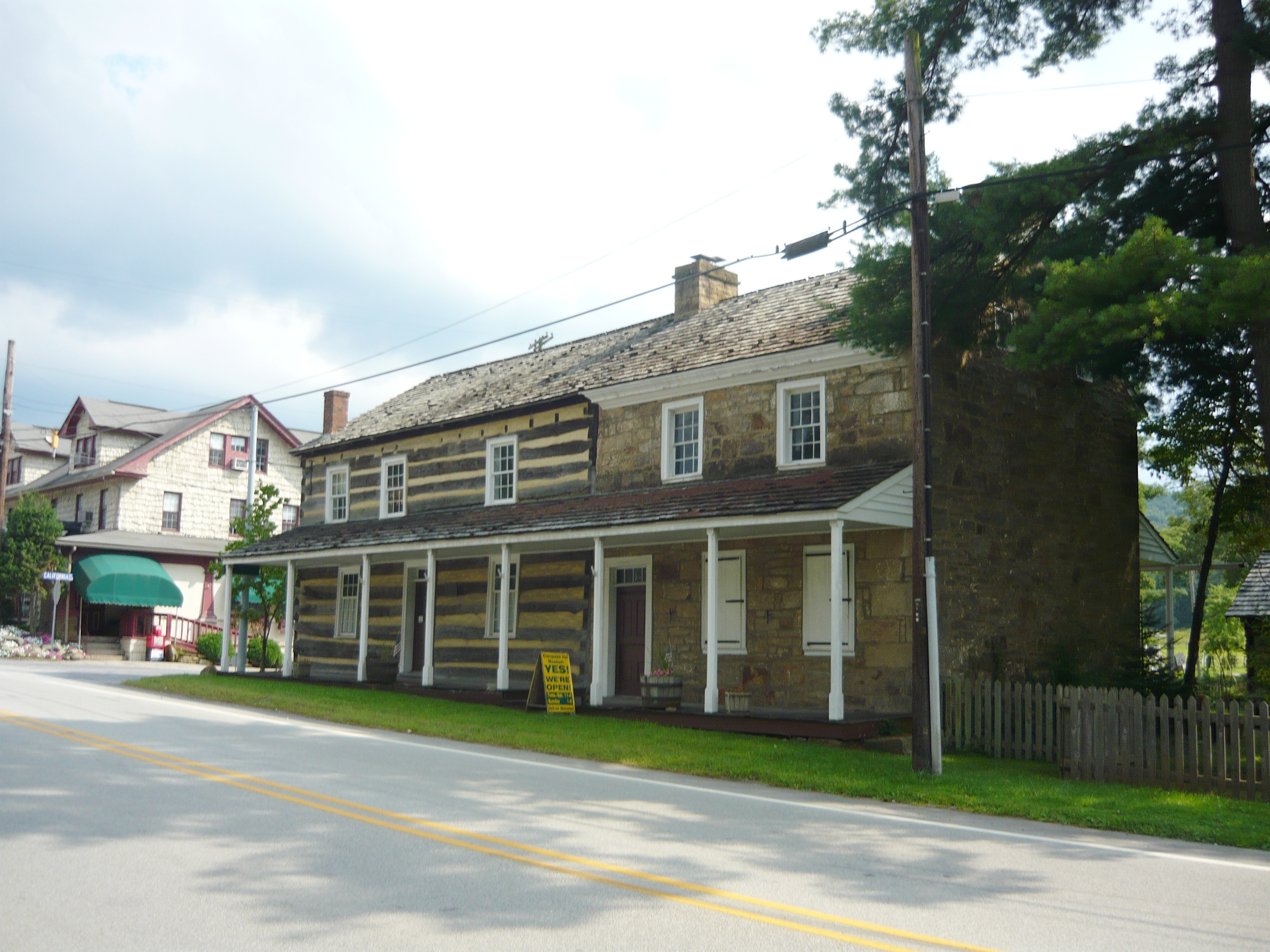 Compass Inn, US Route 30, Laughlintown (actually in Ligonier Township), Westmoreland County, Pennsylvania. Built 1799.